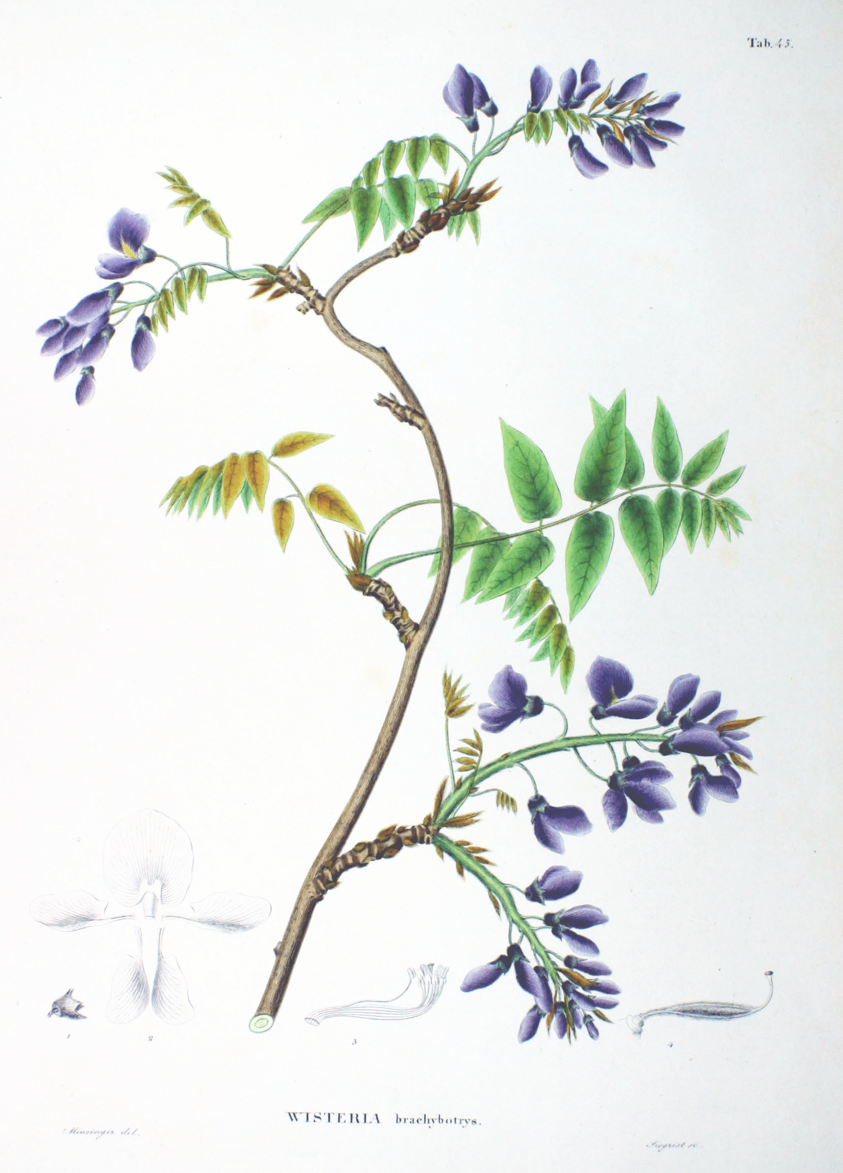 Plate from book